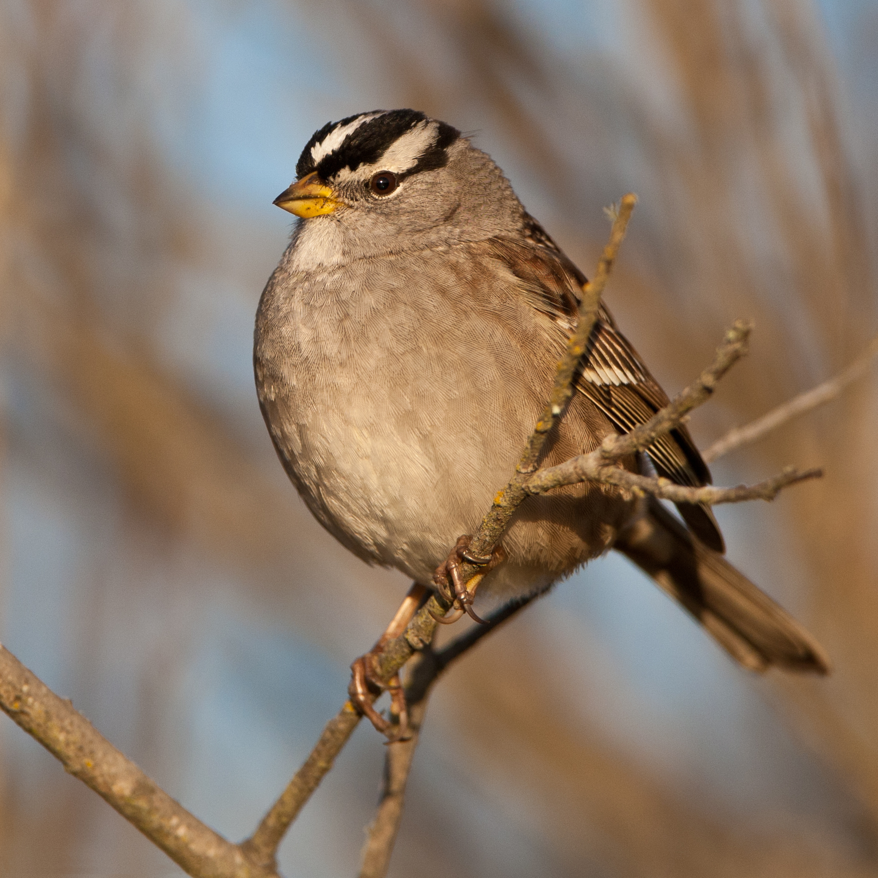 A White-crowned Sparrow at Cloisters Park, Morro Bay, Californai, USA.